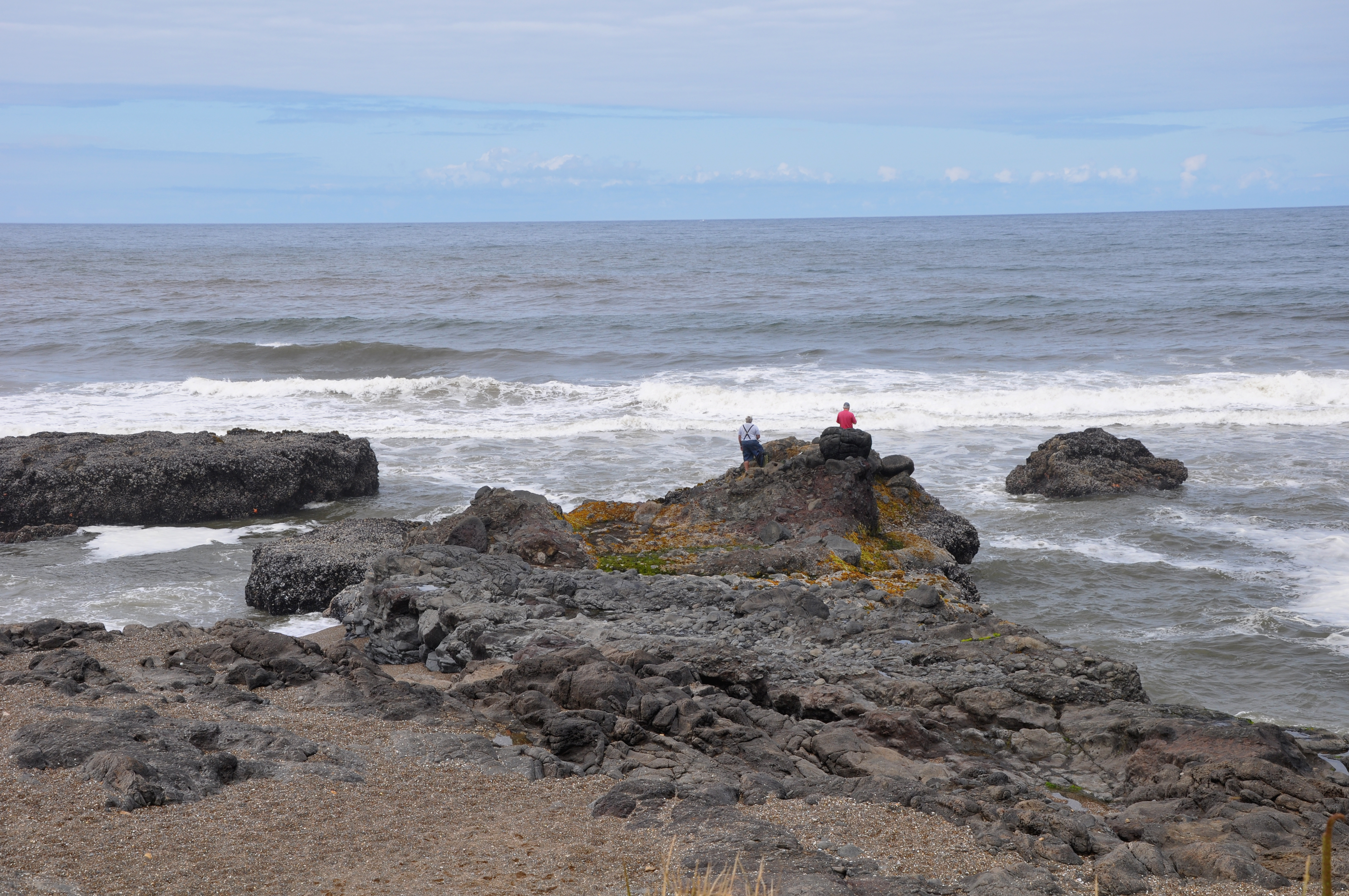 Smelt Sands State Recreation Site near Yachats in the U.S. state of Oregon.